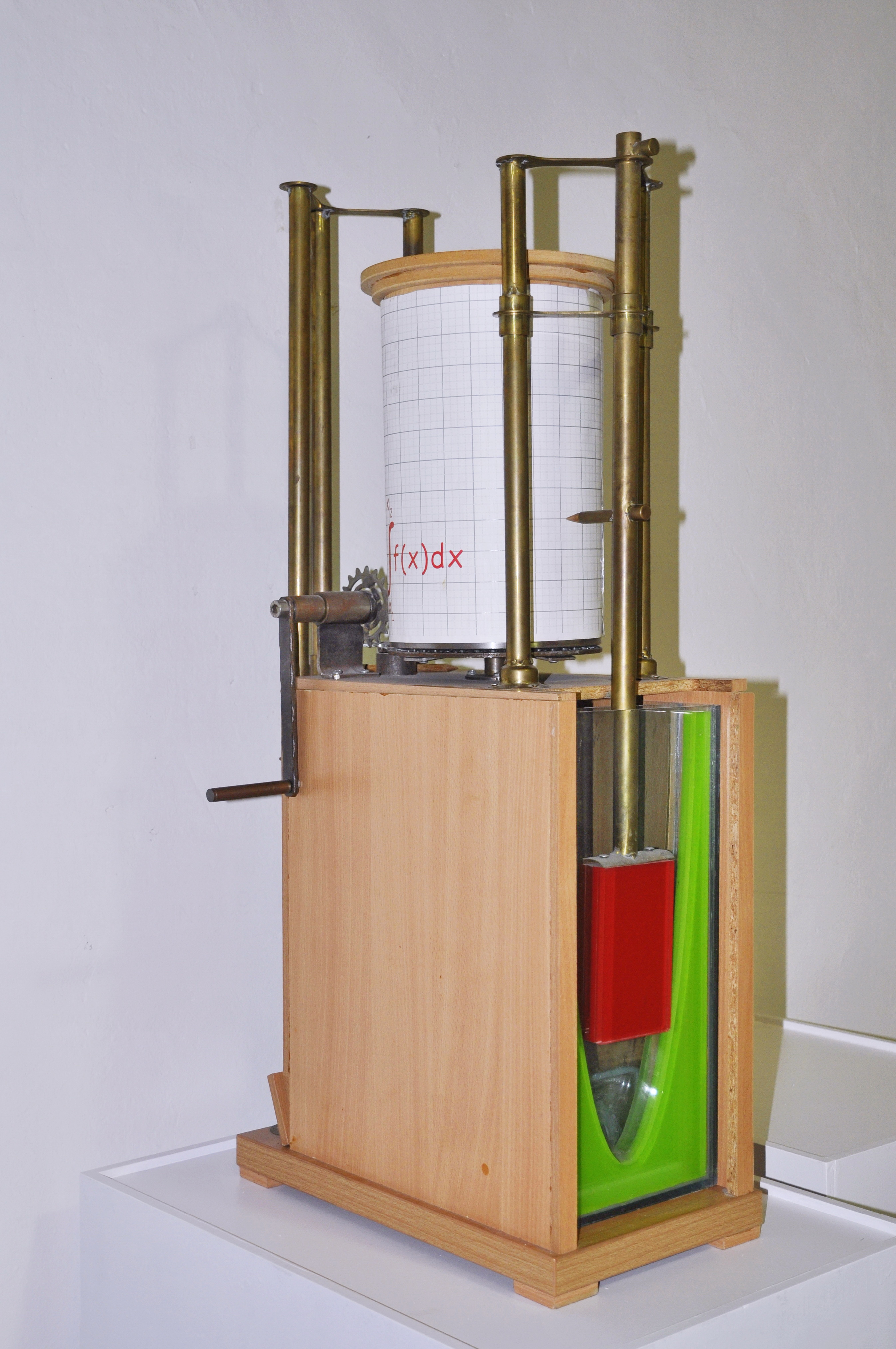 Hidrointegrator made by Mihailo Petrović Alas. Now located in Museum of Science and Technology in Belgrade.